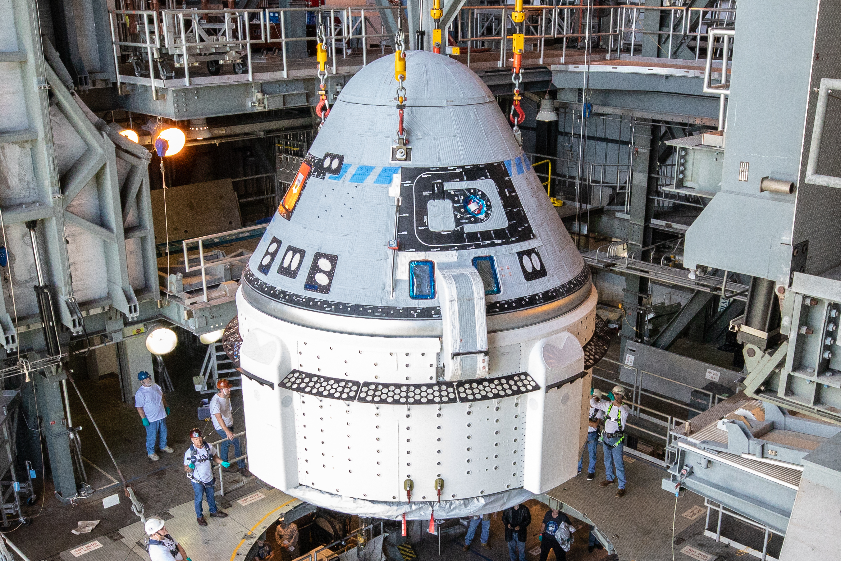 The Boeing CST-100 Starliner spacecraft is guided into position above a United Launch Alliance Atlas V rocket at the Vertical Integration Facility at Space Launch Complex 41 at Florida’s Cape Canaveral Air Force Station in preparation for its Orbital Flight Test.